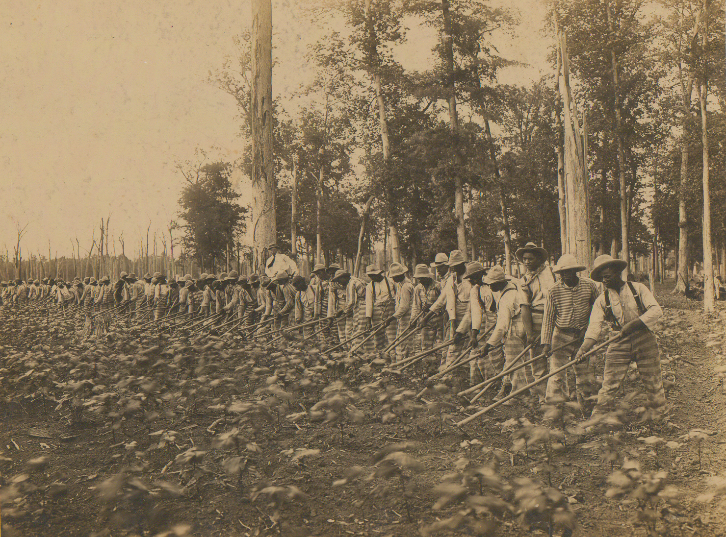 Parchman Penal Farm. Male prisoners hoeing in a field.